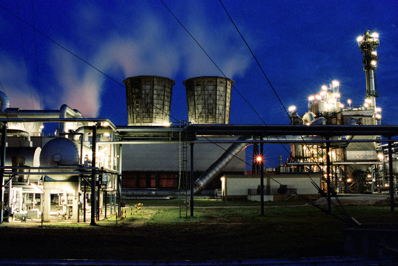 Esso-Refinery Ingolstadt, Germany.